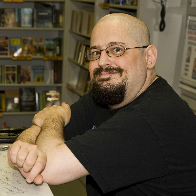 Photograph by Simon Bradshaw, 1 May 2009, Book signing at Forbidden Planet, London.